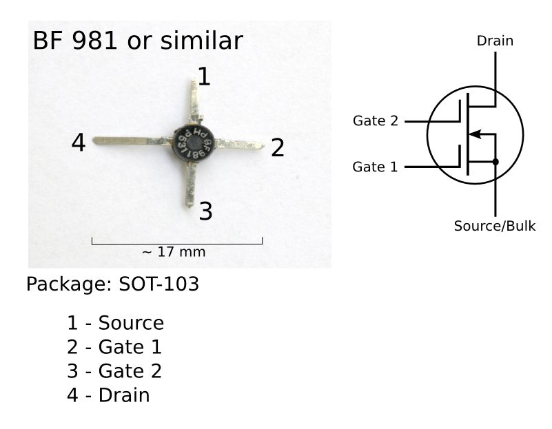 Dual Gate MOSFET BF981 or similar